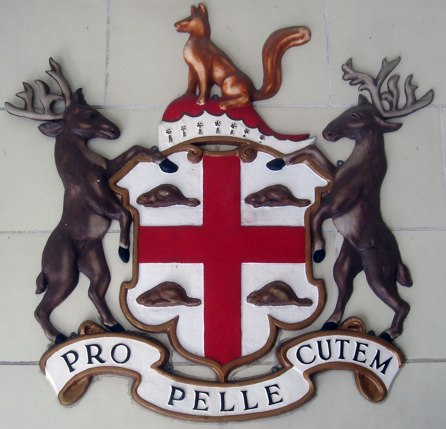 Hudson's Bay Company coat of arms, photographed on the wall of the HBC (the Bay) building in downtown Calgary, Alberta, Canada. Heraldic achievement of Hudson's Bay Company: Argent, a cross gules between four beavers passant proper. Crest: On a chapeau gules turned up ermine a squirrel sejant proper. Supporters: Two bucks proper. Latin Motto: pro pelle cutem ("skin for leather")[1] apparently a play on Job, 2:4: Pellem pro pelle[2] "skin for skin".[3][4][5]